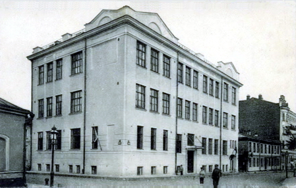 Grammer school M. Bruchonenko. Stolovy 10, Moscow, Russia